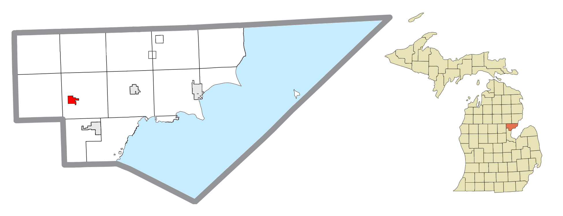 Sterling, MI